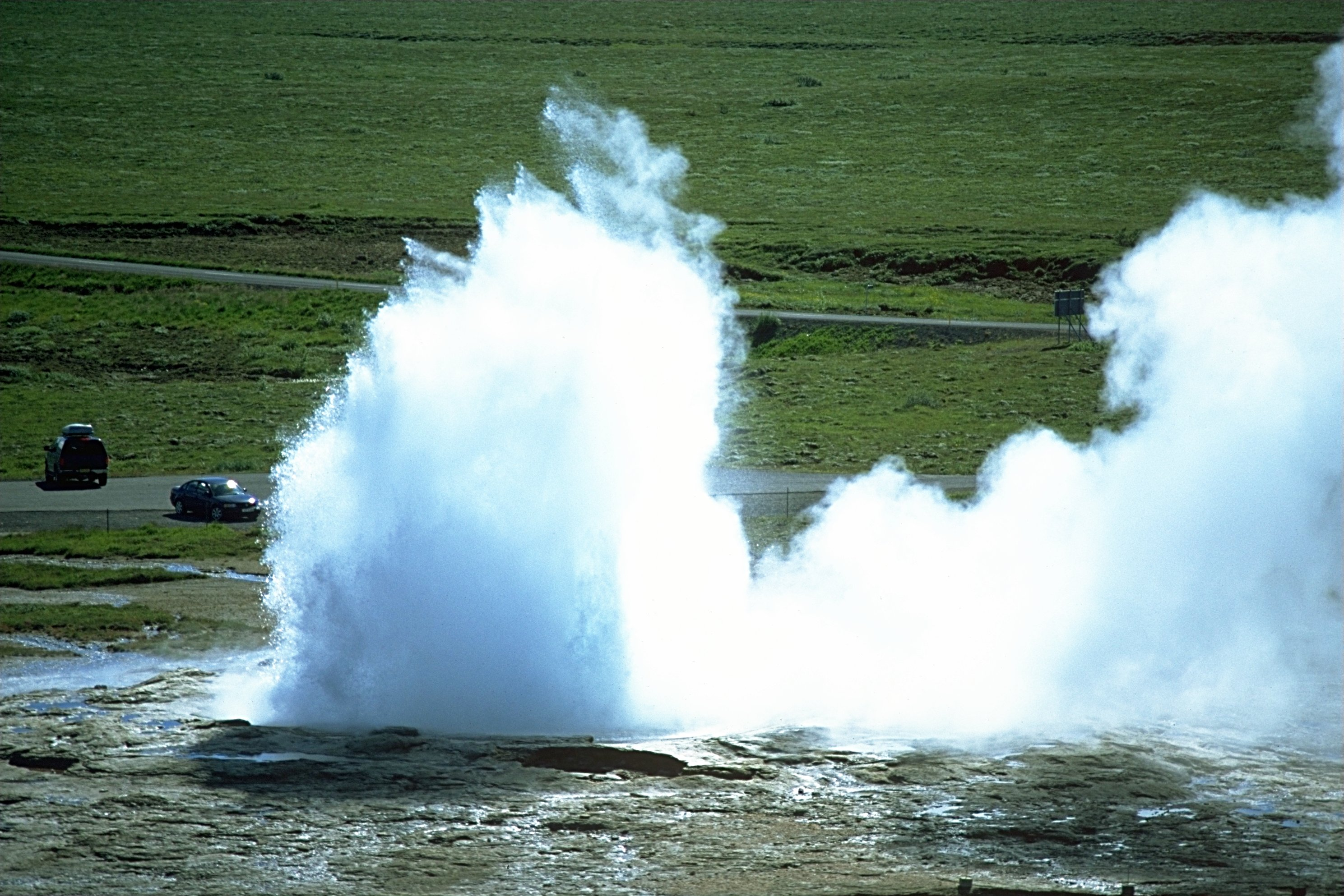 Eruption of Great Geysir, Iceland Photo was taken using the following technique: Film: Fuji Velvia Lens: 4/70-210 Filter: none Body: Minolta 9000 Support: Manfrotto 190B Image with Information in English Bild mit Informationen auf Deutsch